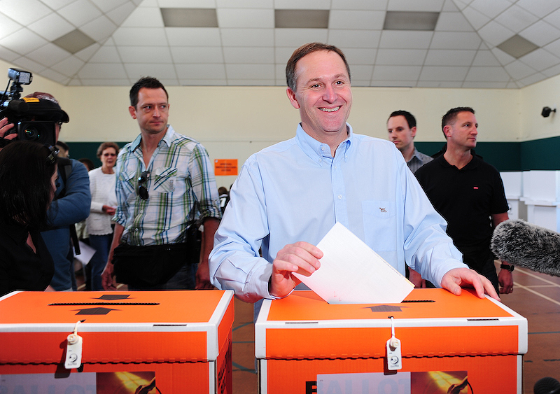 John Key placing his vote in the ballot box for the Epsom electorate